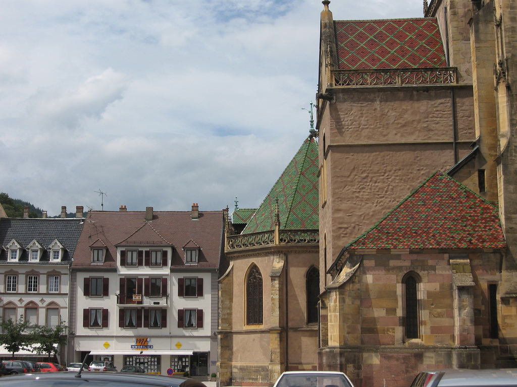 See where this picture was taken. ?